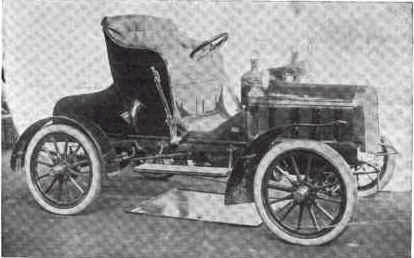 1905 Ariel 15 HP Type III Roadster, 3 cylinder engine, wheelbase 88 in.